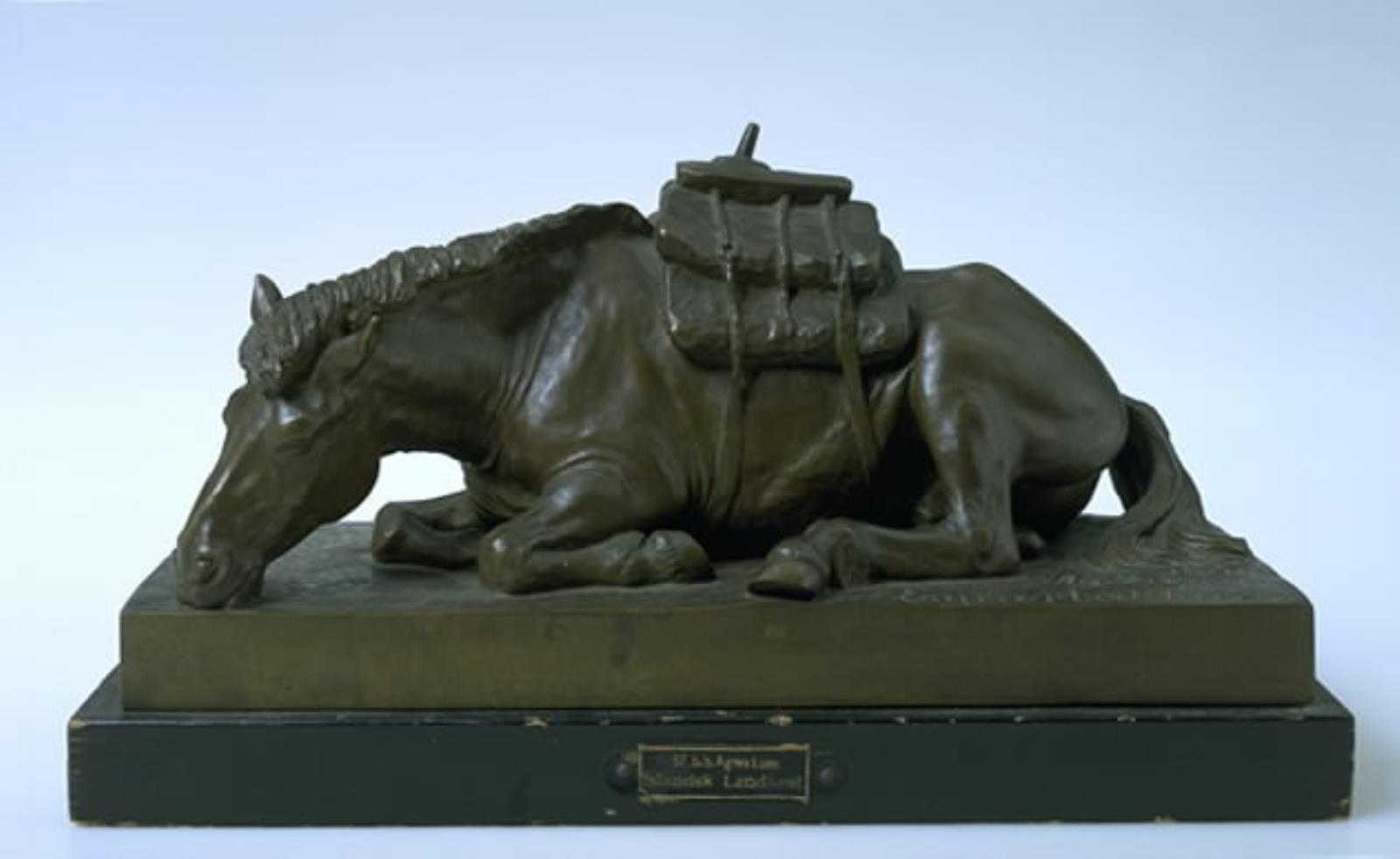 Agnes Lunn (1850-1941), Hvilende islandsk lasthest, 1904